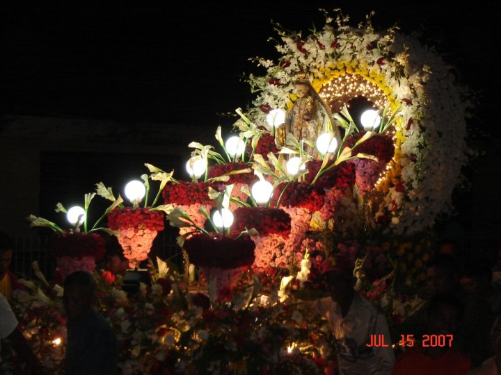 Fiesta in Libagon, Southern Leyte